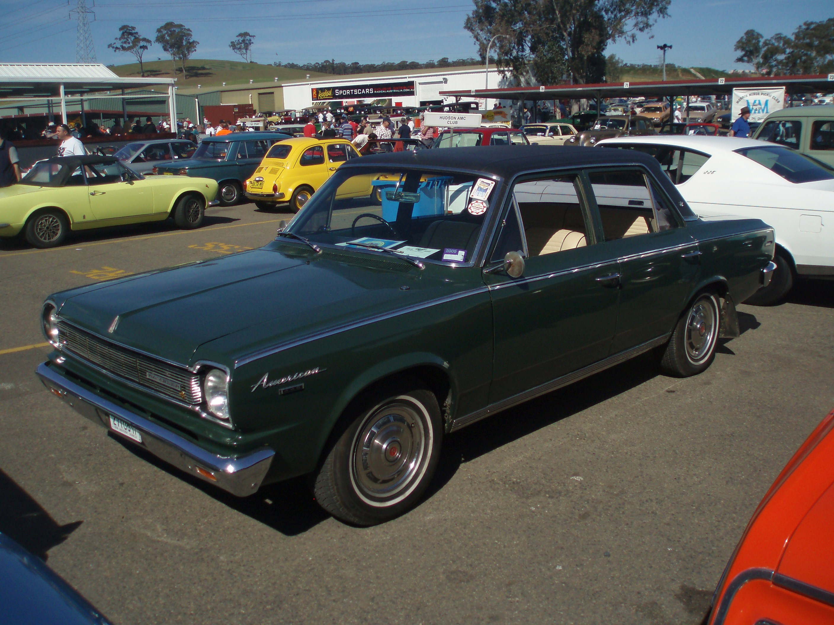 1966 Rambler American 440 (AMC) sedan. Australian assembled by AMI (Australian Motor Industries) in Melbourne. These were sold as Rambler Classics in Australia. Taken at Shannon's Eastern Creek Classic 2009, held at Eastern Creek Raceway Sydney.